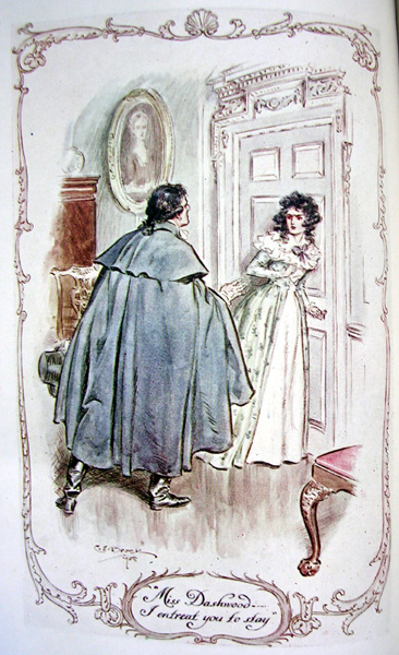 Sense and Sensibility (Jane Austen Novel), ch.44. Willoughby is coming at Cleverland to explain himself and beg Marianne's forgiveness